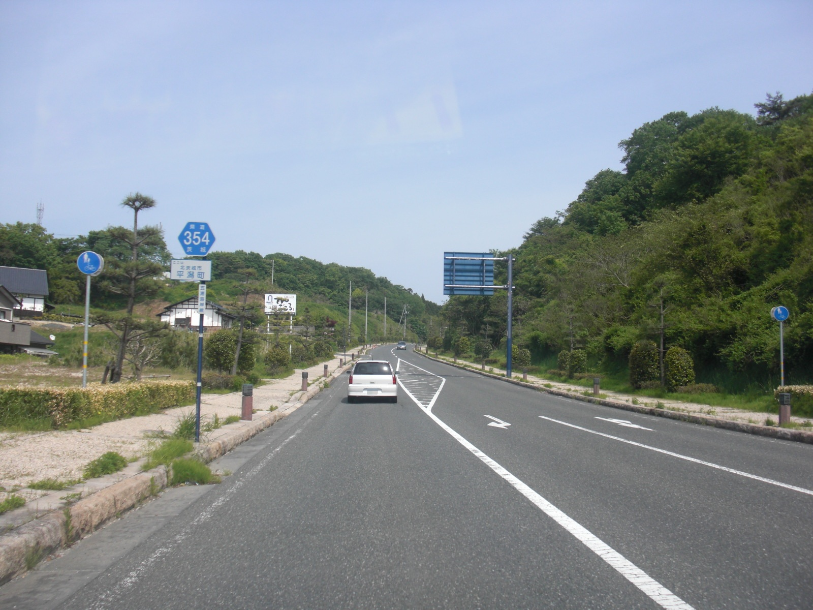 This is one scene of the Ibaraki prefectural road No.354 Izura Kaigan Line in Hirakata-cho, Kitaibaraki, Ibaraki, Japan.